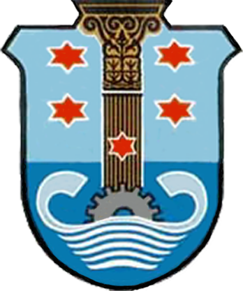 Coat of Arms of the city of Ashkelon, Israel